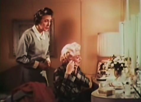 Ann Codee (left) & Lana Turner in Mr. Imperium - cropped screenshot